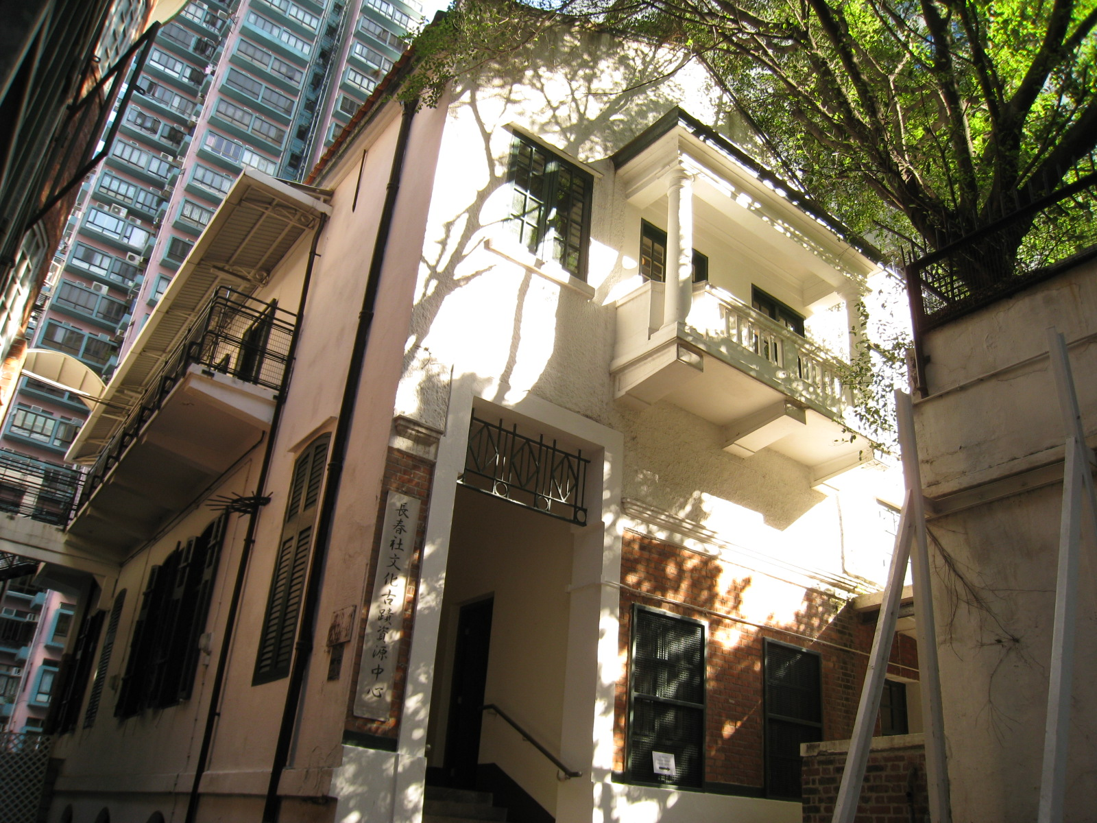 Venue of The Conservancy Association Centre for Heritage